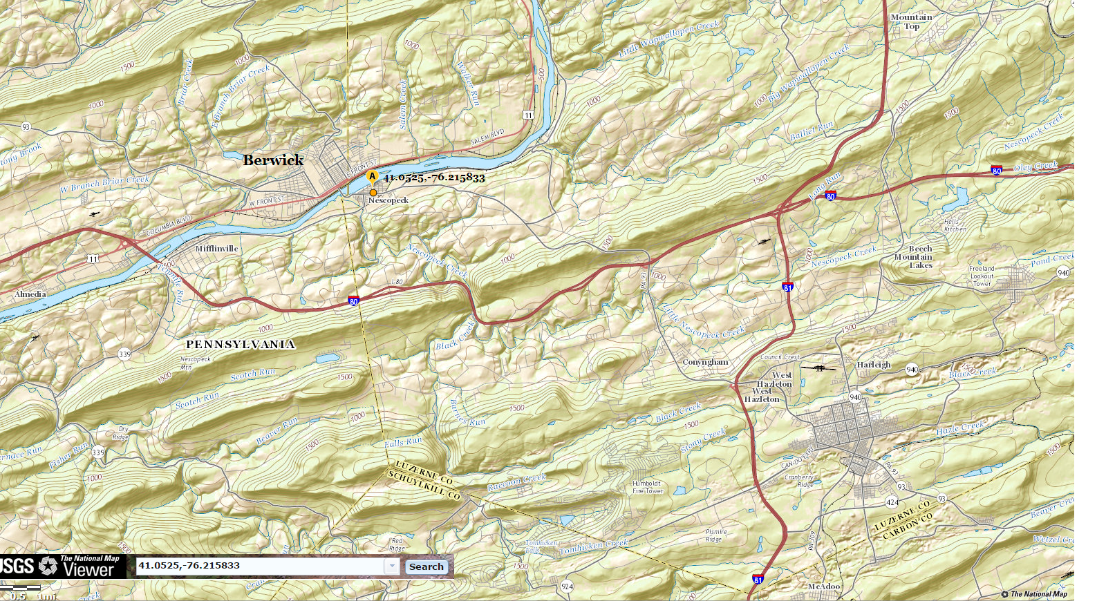 National Map Viewer Screenshot centered on coordinates generated by Wikipedia Article on town of Nescopeck, Pennsylvania. Nescopeck was the northern anchor port on the Susquehanna River of the Lehigh-Susquehanna Turnpike (1804), a wagon road over the tough terrain of Broad Mountain (Lehigh Valley). The turnpike lead to the discovery of coal near Beaver Meadows, Pennsylvania at Junedale, and the construction of the Beaver Meadows Railroad (1830), one of the first North American railways to use a steam locomotive as prime mover.